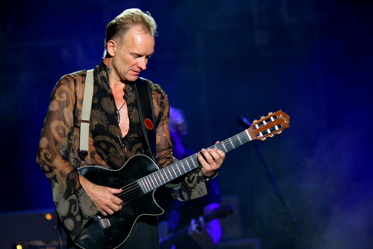 Sting, live in Milan